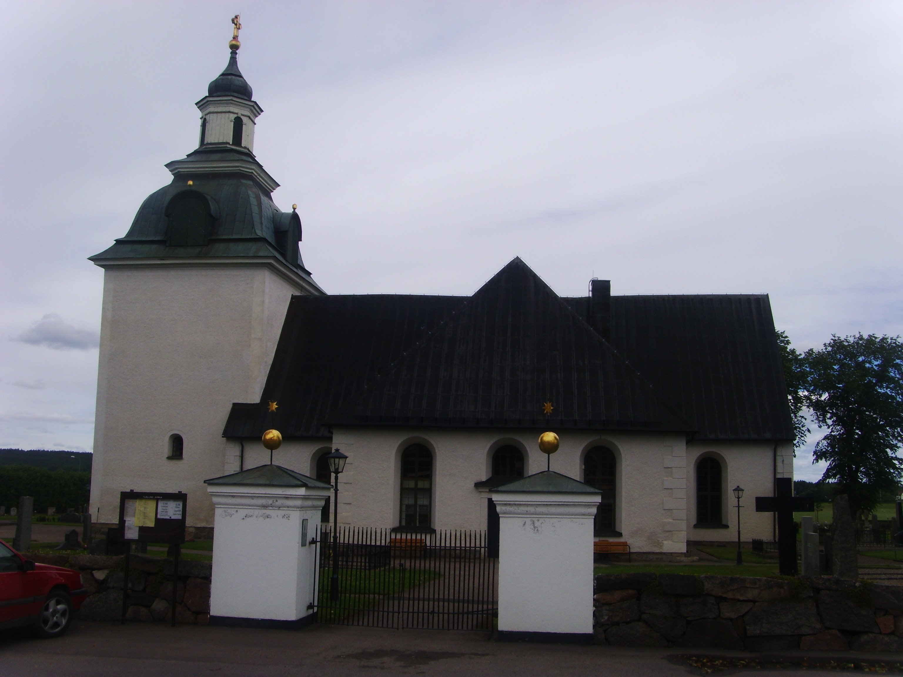 The church in Tjällmo.